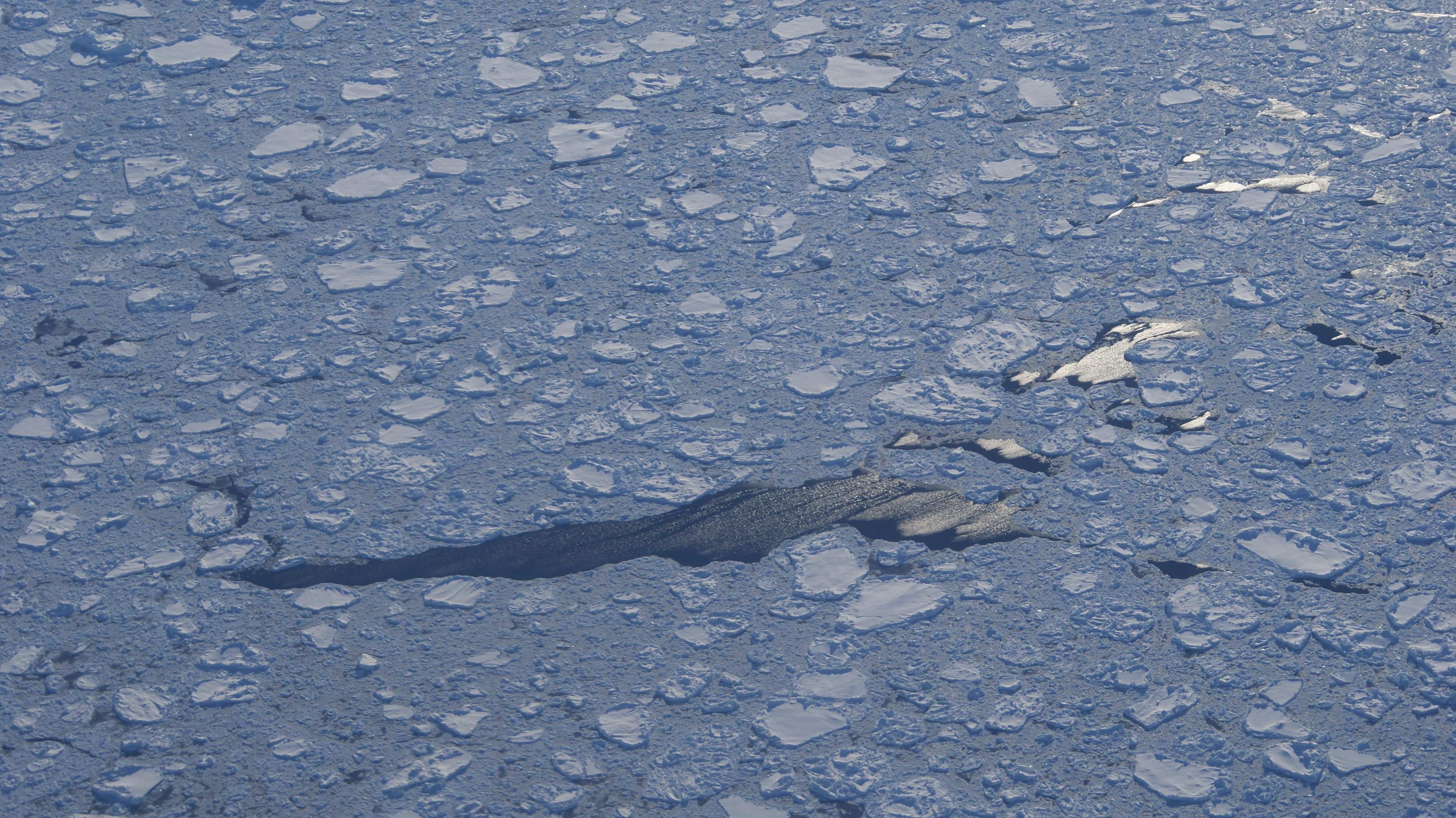 Aerial view of Ikaasaartik Strait, southeastern Greenland. Icefloes and leads in the mouth of the strait, at the confluence with the open North Atlantic (for some value of open, that is). Photographed from the Flugfélag Íslands de Havilland Canada Dash-8 106 during the Kulusuk-Reykjavík flight.